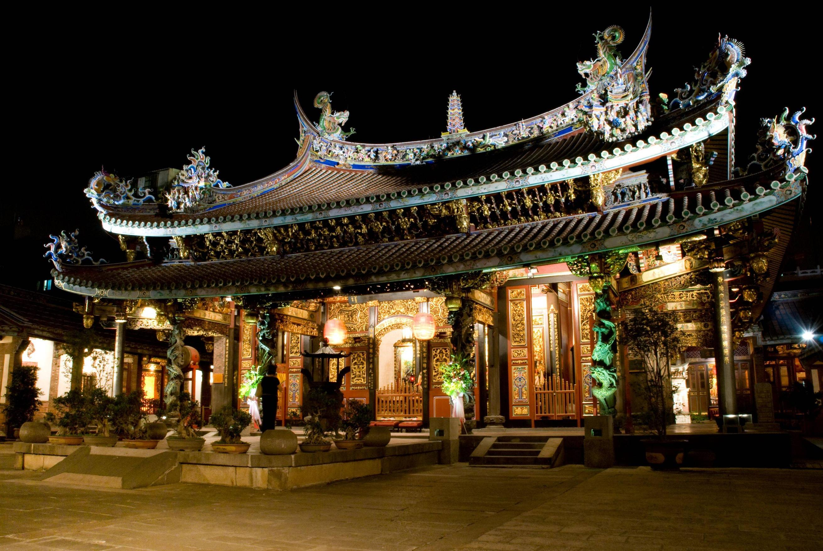 Taipei Baoan Temple